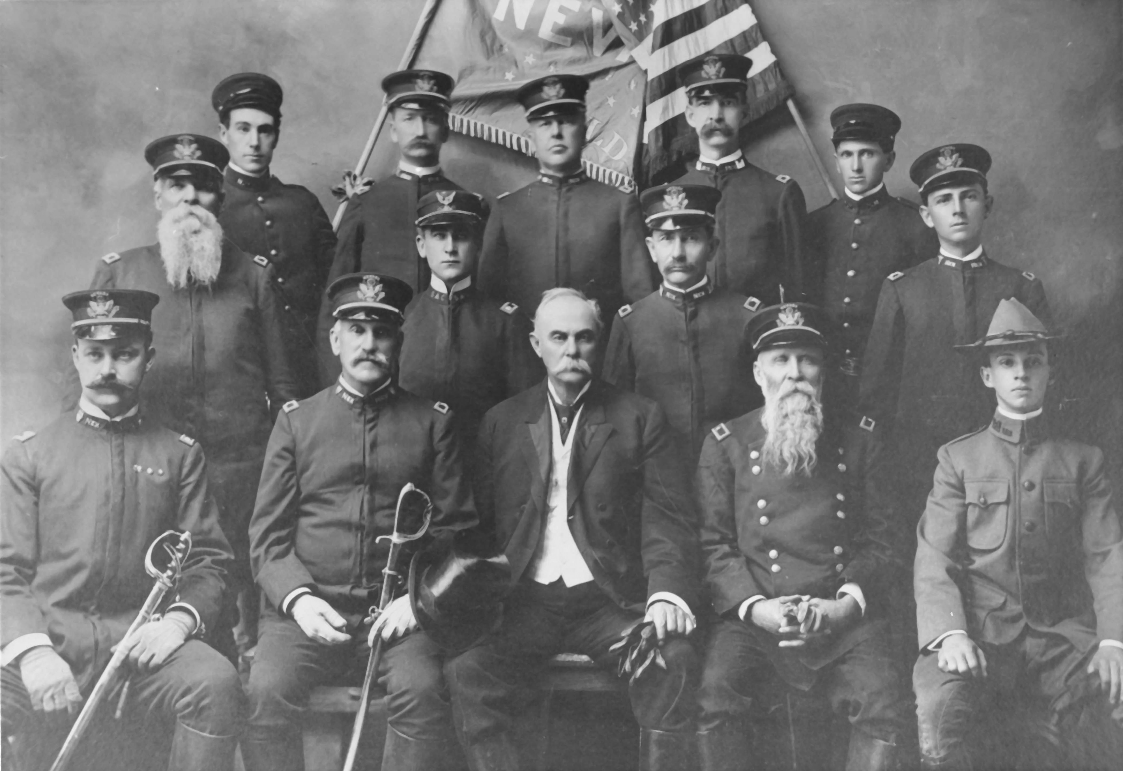 Gov Sparks